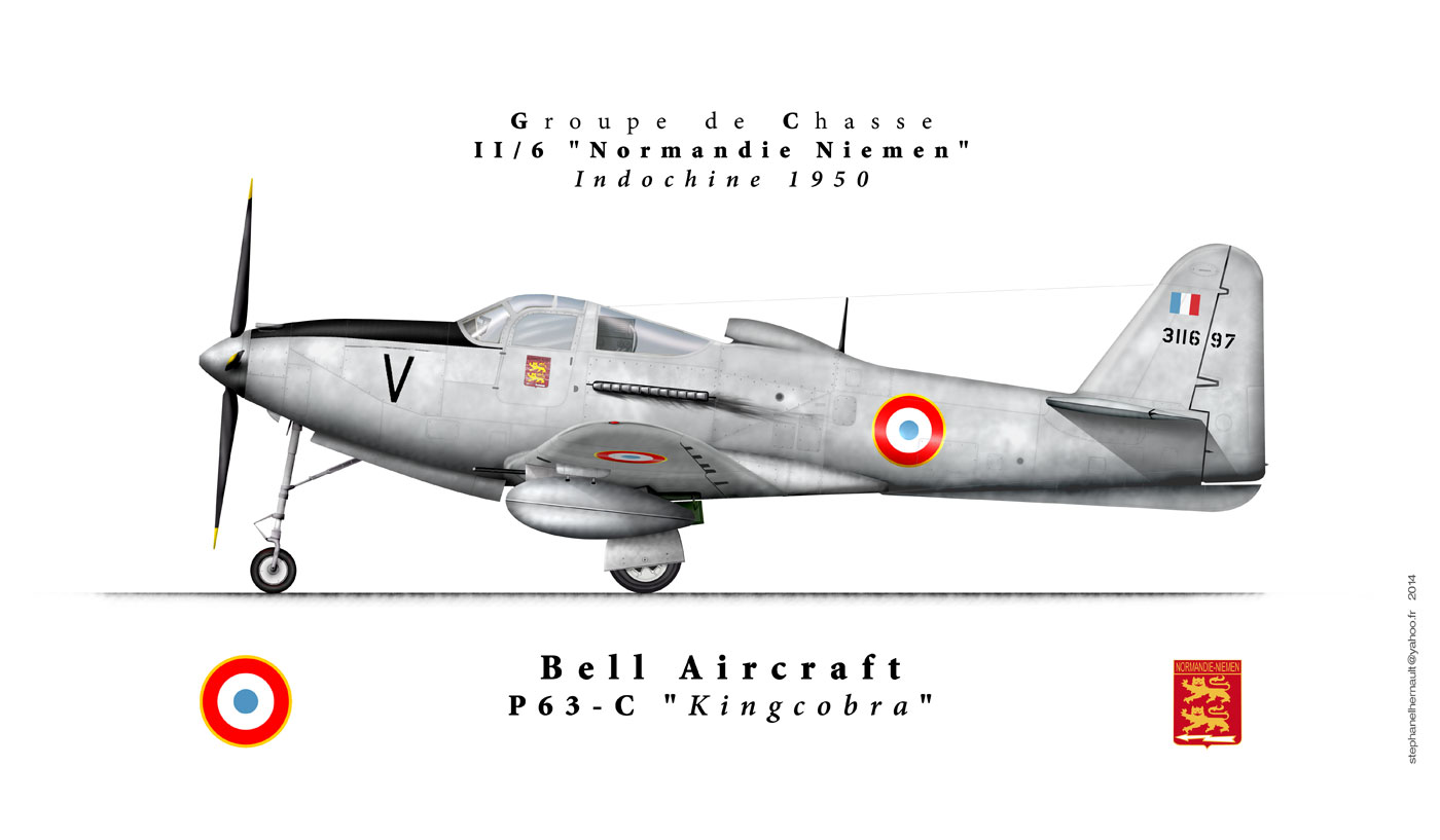 Bell Airraft P63C Kingcobra French Air Force Indochina 1950